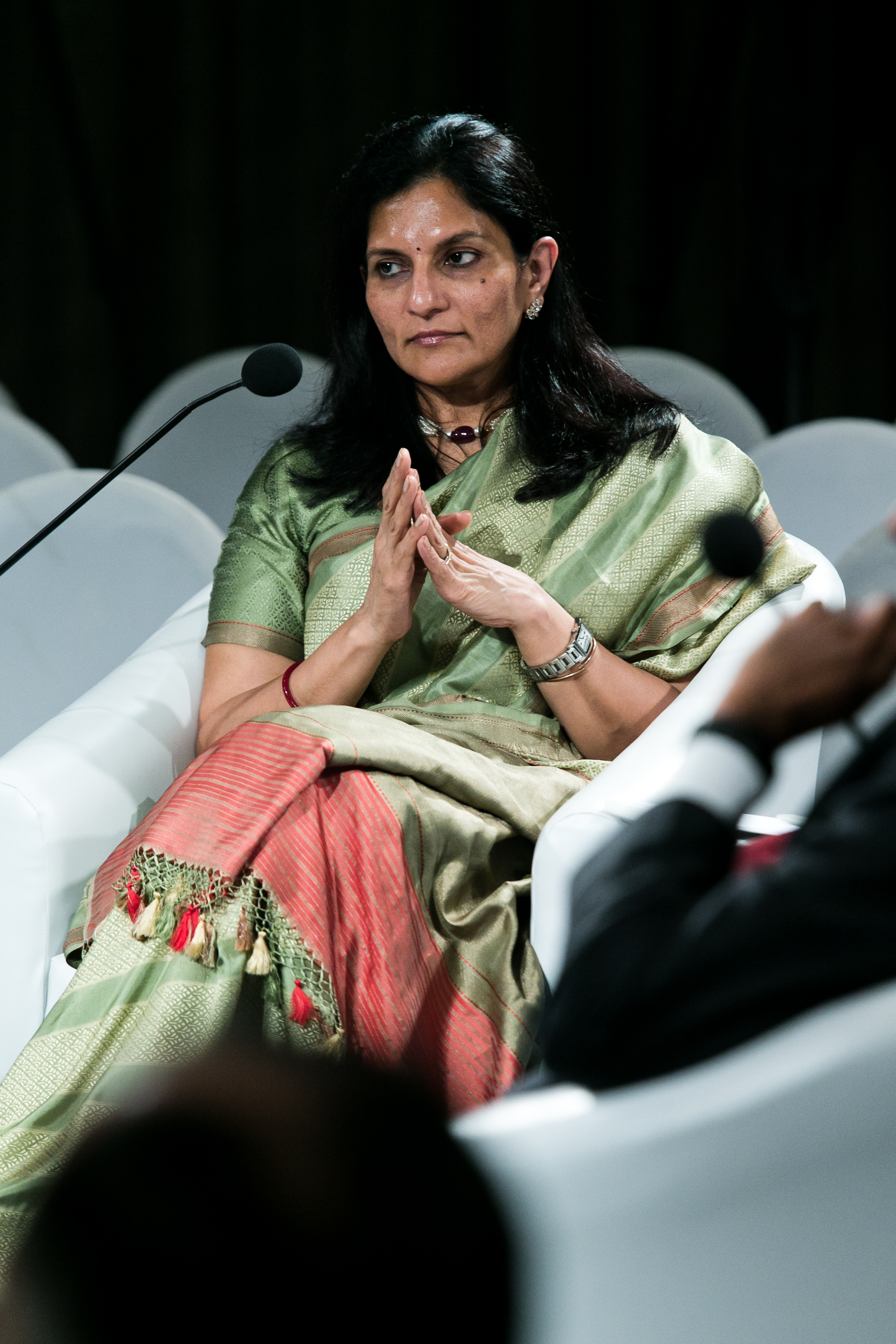 Preetha Reddy, Managing Director, Apollo Hospitals Enterprise, India at the World Economic Forum on India 2012. Copyright World Economic Forum / Photo by Benedikt von Loebell